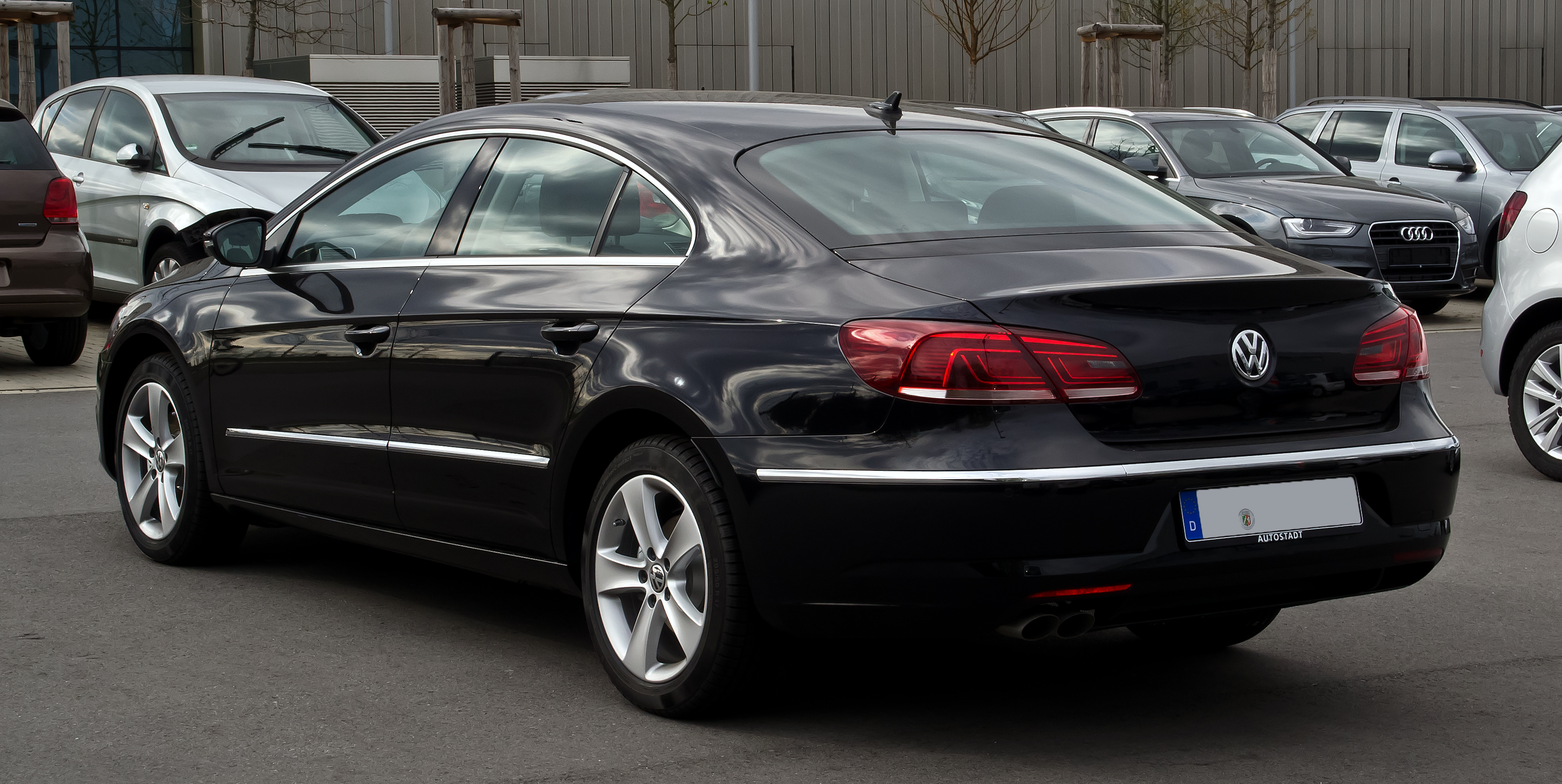 VW CC (Facelift)